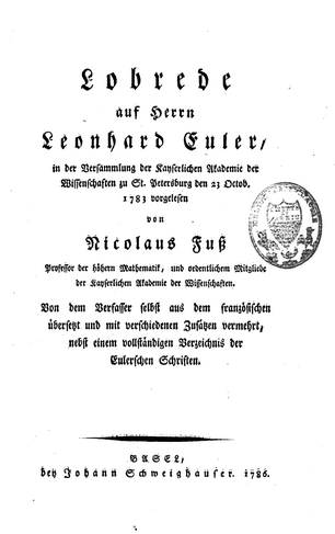 Frontpage of the obituary of Euler by Nicolaus Fuss (1755-1826) pronounced Oct 23th 1783